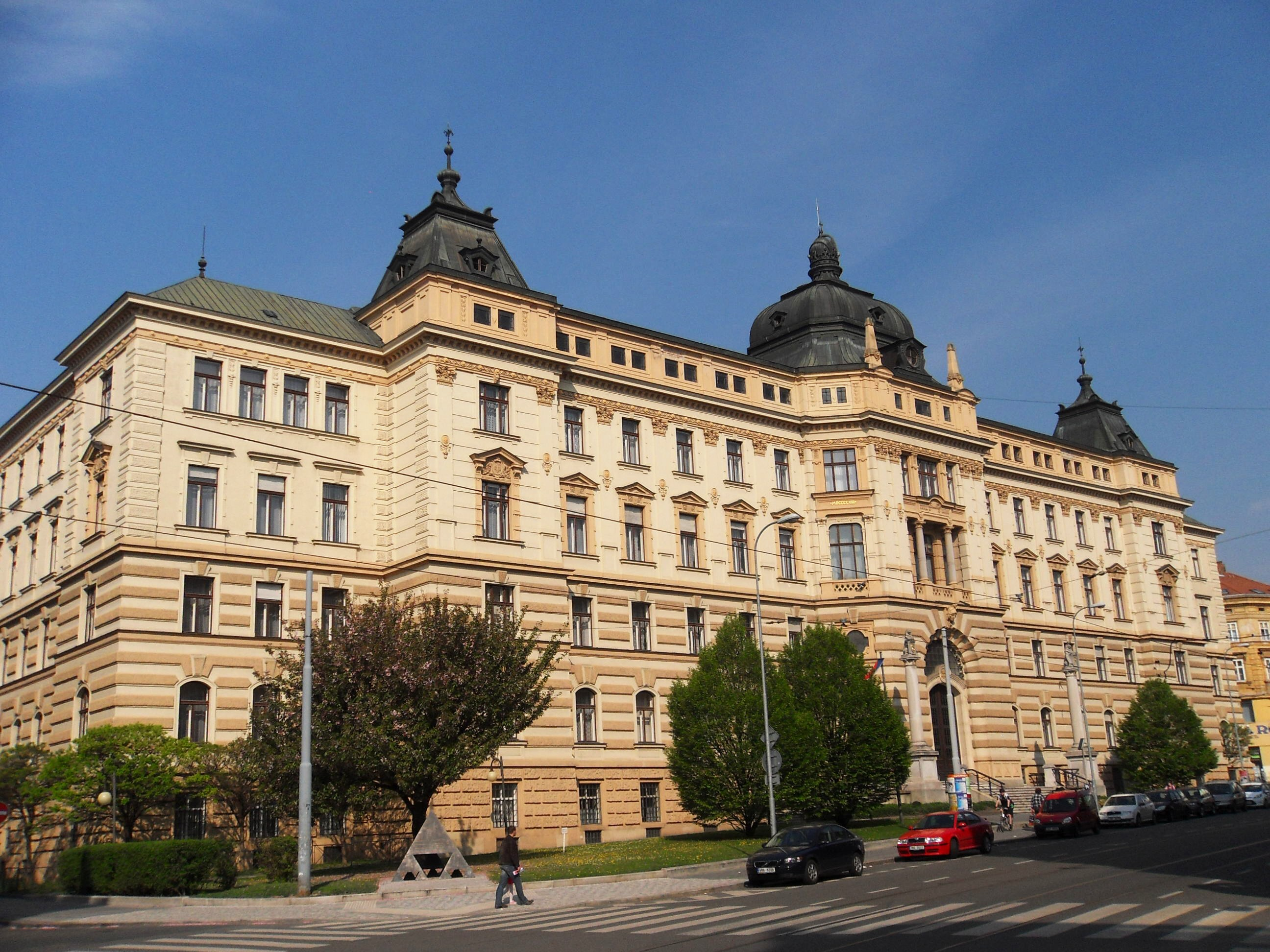 Palace of Justice (now County Court in Brno), Rooseveltova street, Brno, Czech Republic